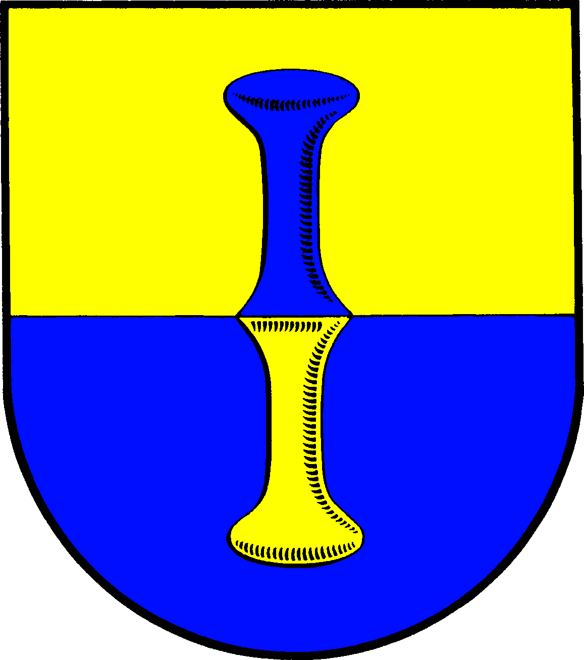 Coat of arms of the former Amt (county) Stapelholm in Schleswig-Holstein, Germany.